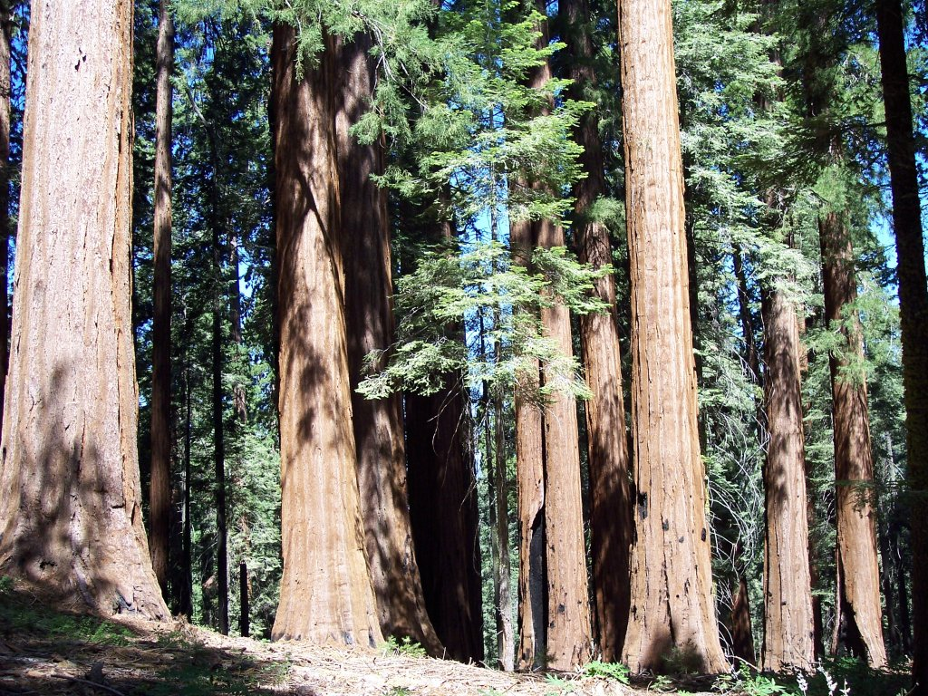 Giant Sequoia trees in the Giant Forest grove, Sequoia National Park, California.